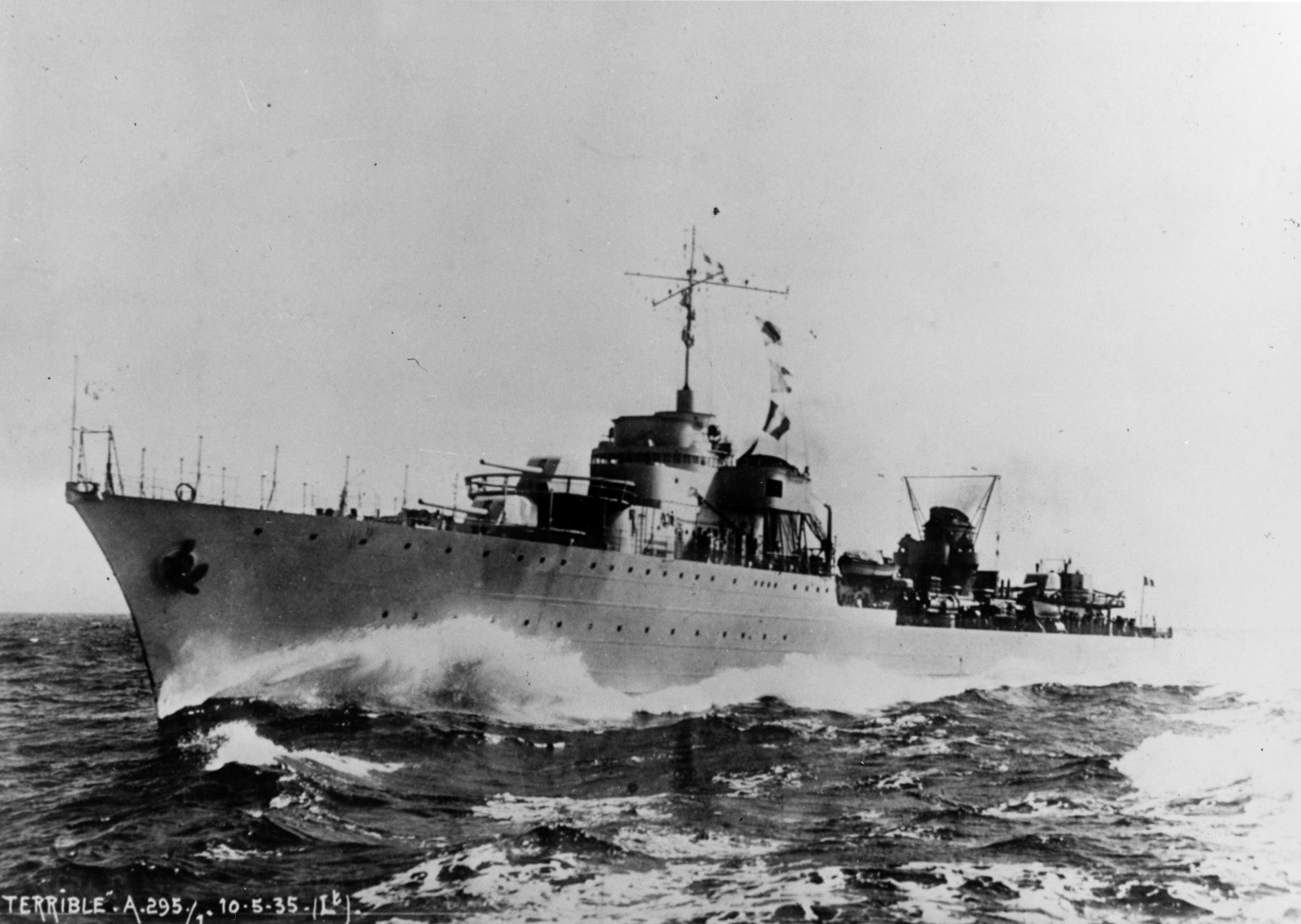 The French contre-torpilleur Le Terrible on her sea trials